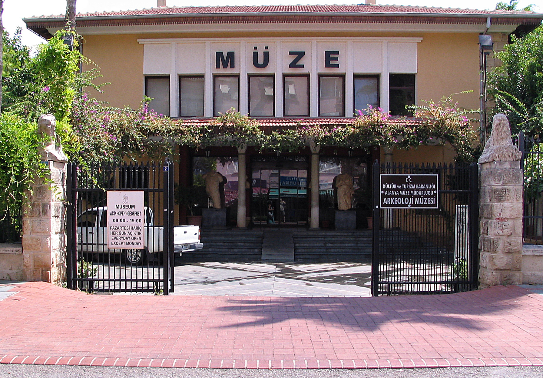 Archeological museum of Alanya, Turkey.